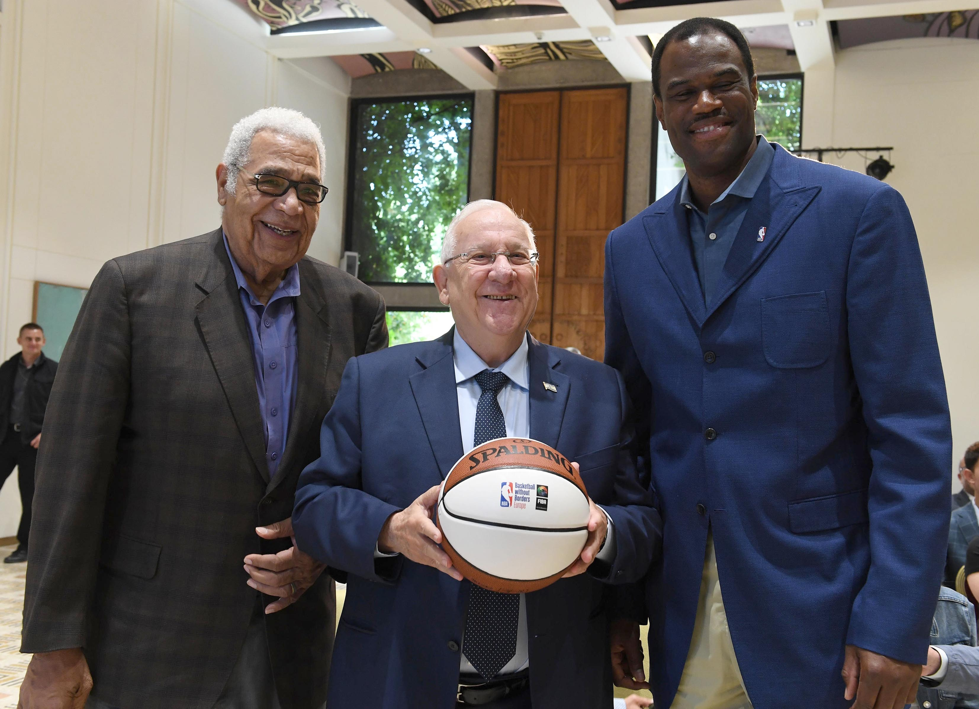 President of the State of Israel, Reuven Rivlin, at a meeting with a delegation of leading personalities from the National Basketball Association of the USA at Beit HaNassi. Thursday, August 10, 2017. Photo Credit: Mark Neyman / GPO.